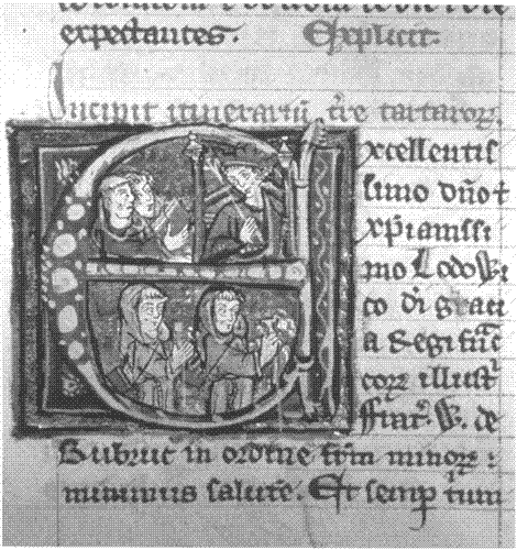 Image from Cambridge, Corpus Christi College, MS 066A: Jacques de Vitry, Historia orientalis. Willelmus de Rubruk OFM, Itinerarium ad partes orientales. pseudo-John of Damascus, Barlaam et Iosaphat..The upper half portrays William's travel manuscript being handed to King Louis IX; the lower half depicts William of Rubruck with a companion during the voyage.